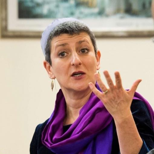 This shows Laura Janner-Klausner speaking at an interfaith event at Regent's Park Mosque.